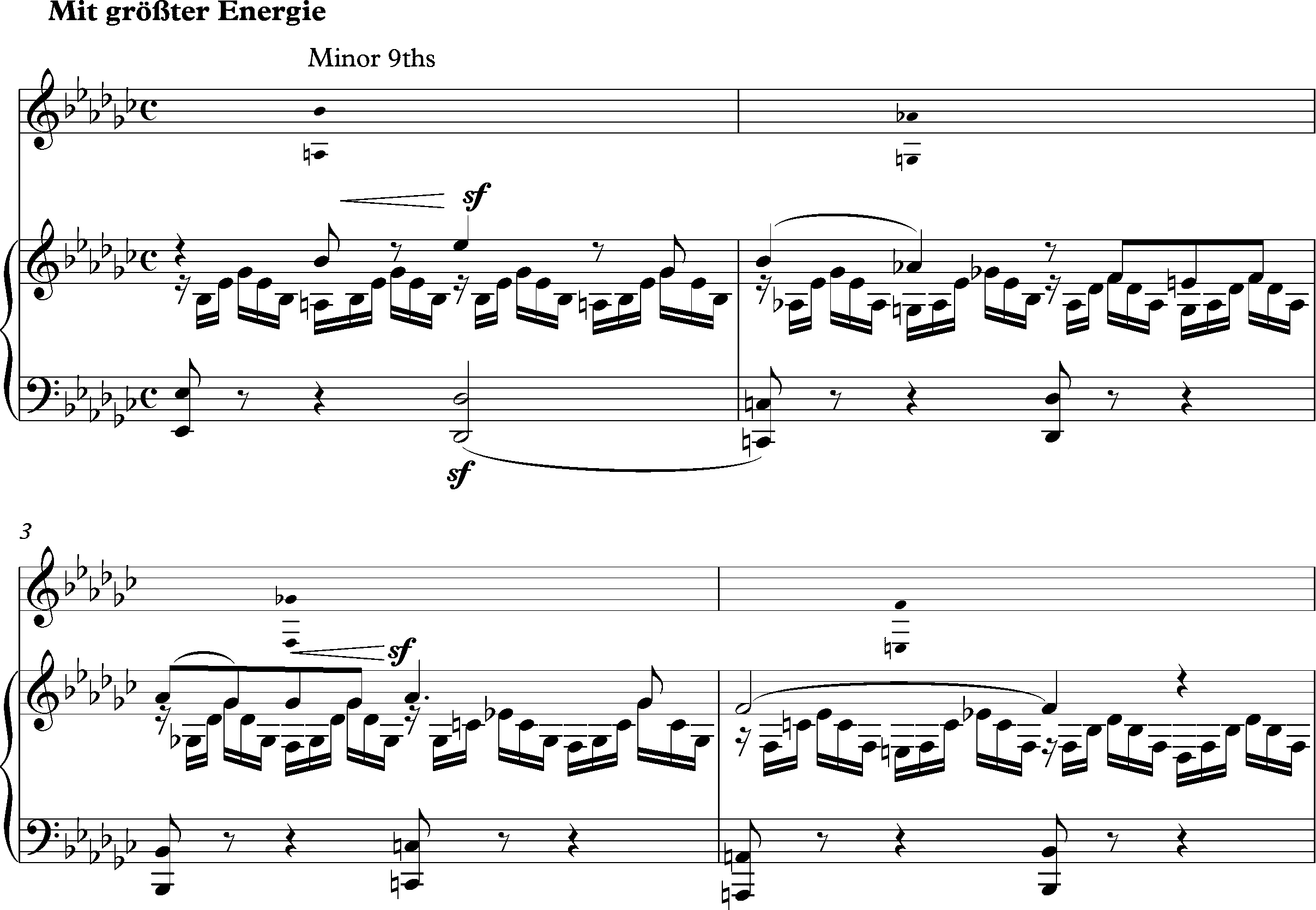 Schumann's Faschingsschwank aus Wien Intermezzo, bars 1-4, with minor 9ths highlighted.